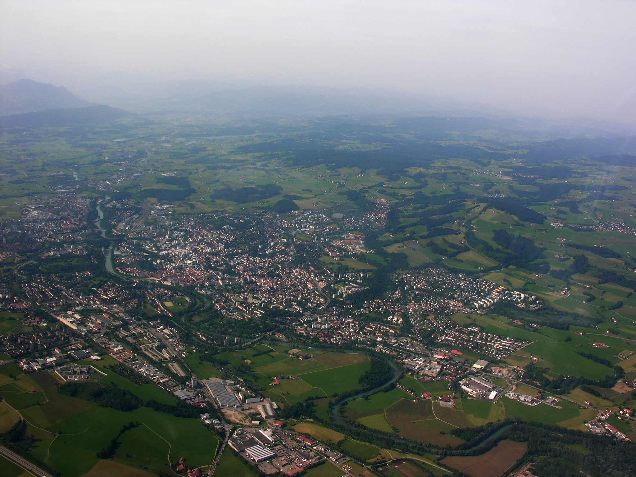 Germany, Bavaria, Aerial view of Kempten